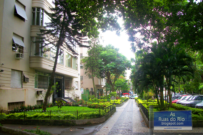 Calçada da Rua General Glicério